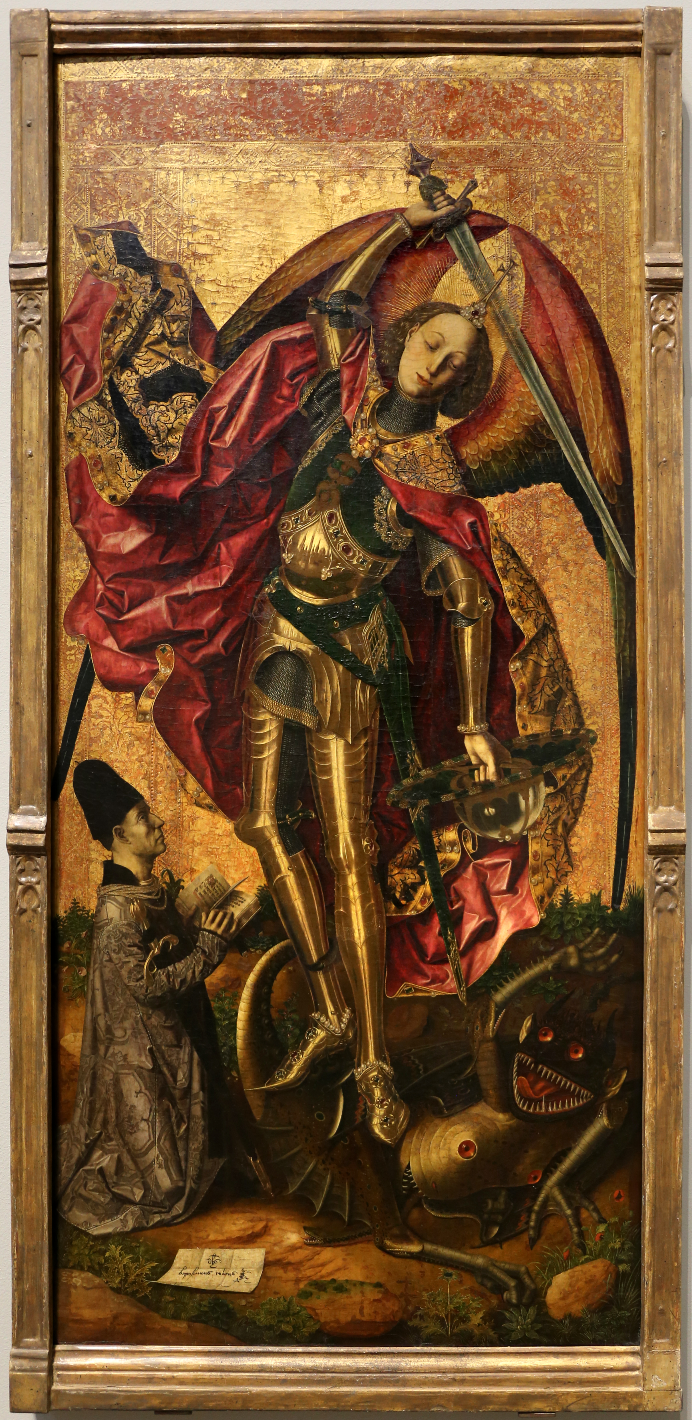 Spanish paintings in the National Gallery, London